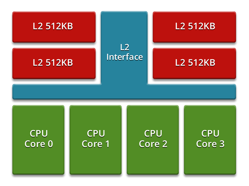 Diagram of an AMD Jaguar module. Each module contains 4 cores with 2MB shared L2 cache.